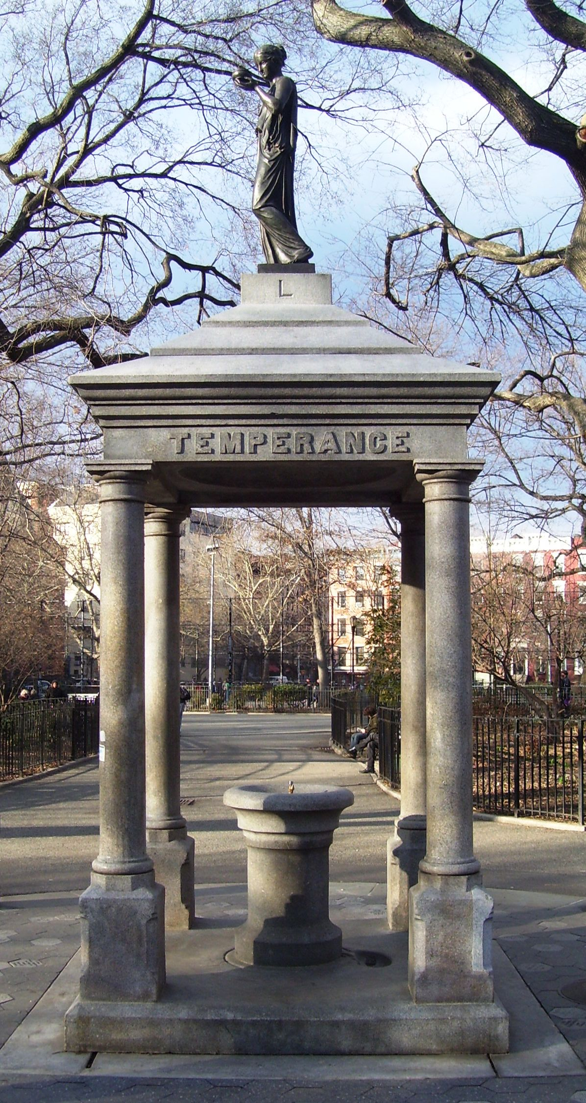 The Temperance Fountain in Tompkins Square Park in the East Village neighborhood of Manhattan, New York City.